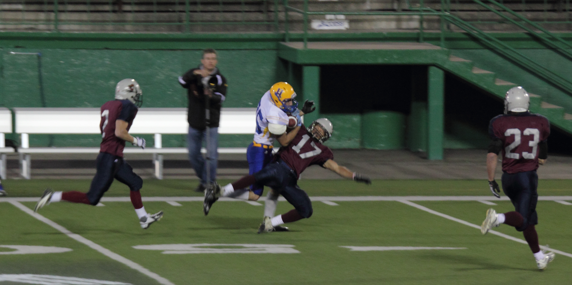 Sunday September 22 7:00 Junior Football game in the Prairie Football Conference. Canadian Junior Football League teams included Regina:Regina and Saskatoon. Saskatoon Hilltops were the visitors at Mosaic Stadiuml home to the Regina Thunder and Saskatchewan Roughriders. The game concluded at Hilltops 42-17 Thunder